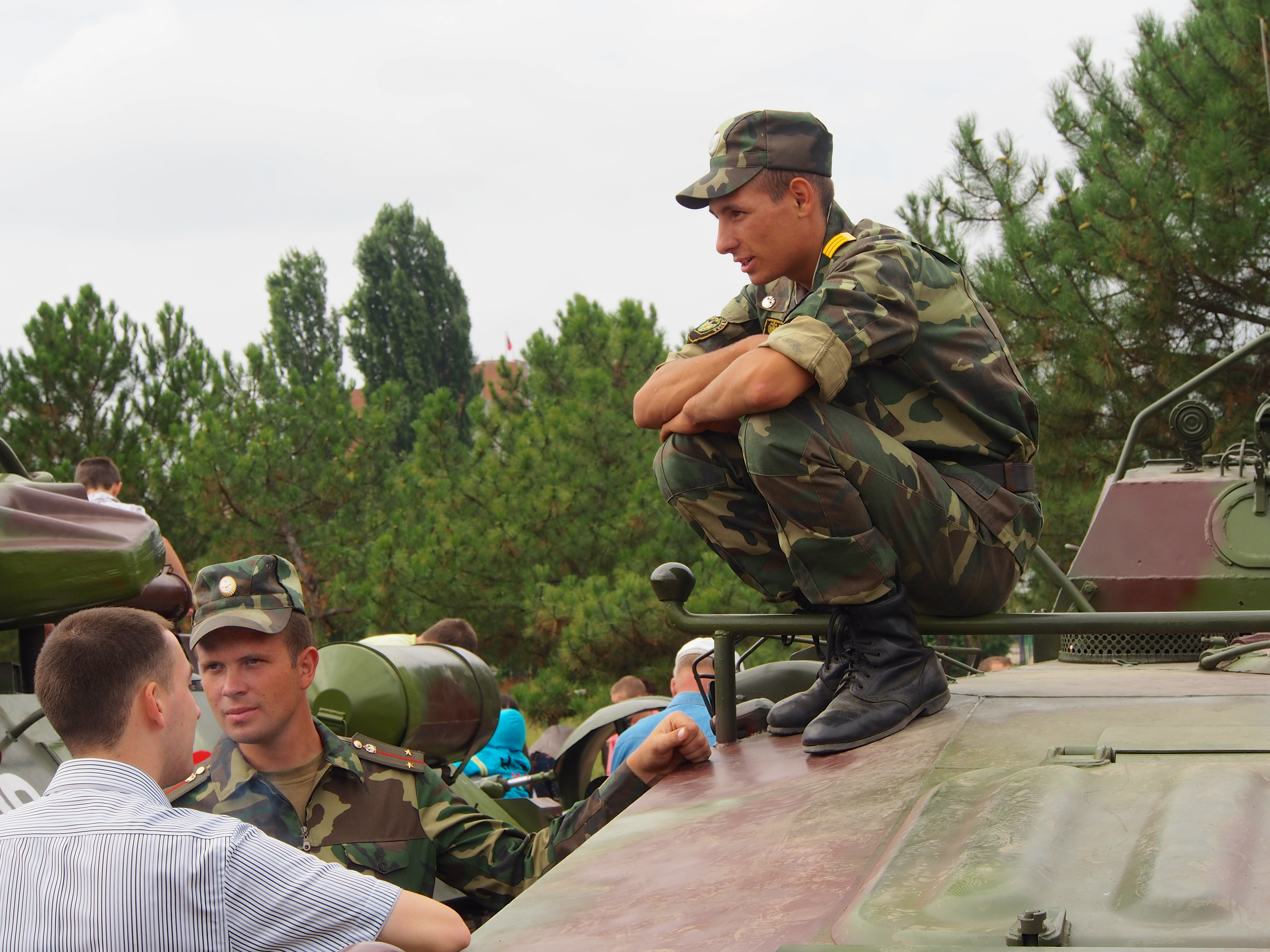 Transnistrian Solders, Transnistrian National Day, September 2, 2013. Celebrates Transnistrias independence from Moldova.